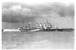 (HMS Norfolk (County Class Cruiser)